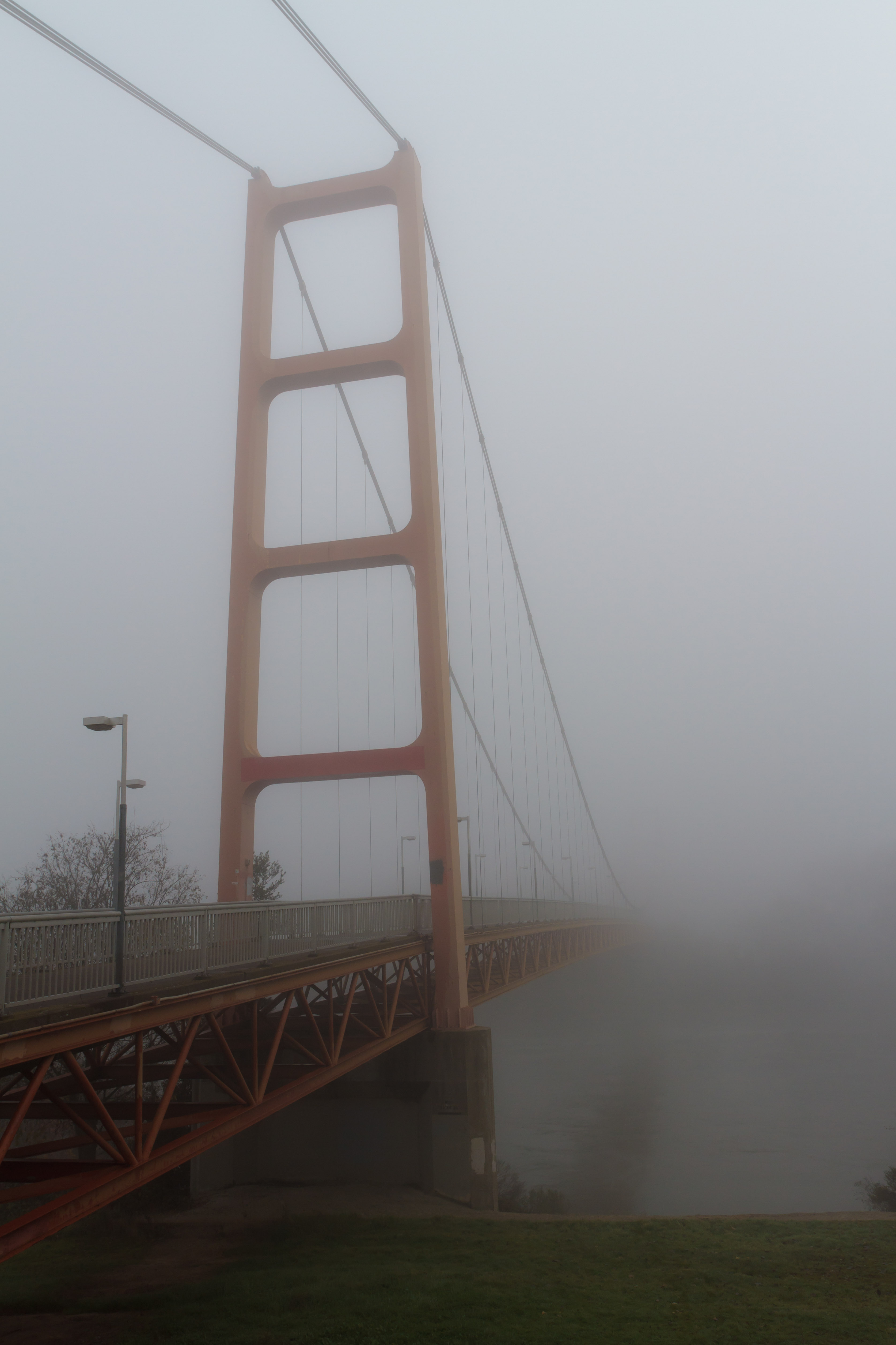 Guy West Bridge - Foggy Day